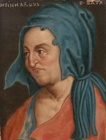 Meinhard of Tyrol